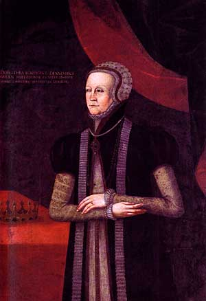 dorothea of lauenburg queen of denmark